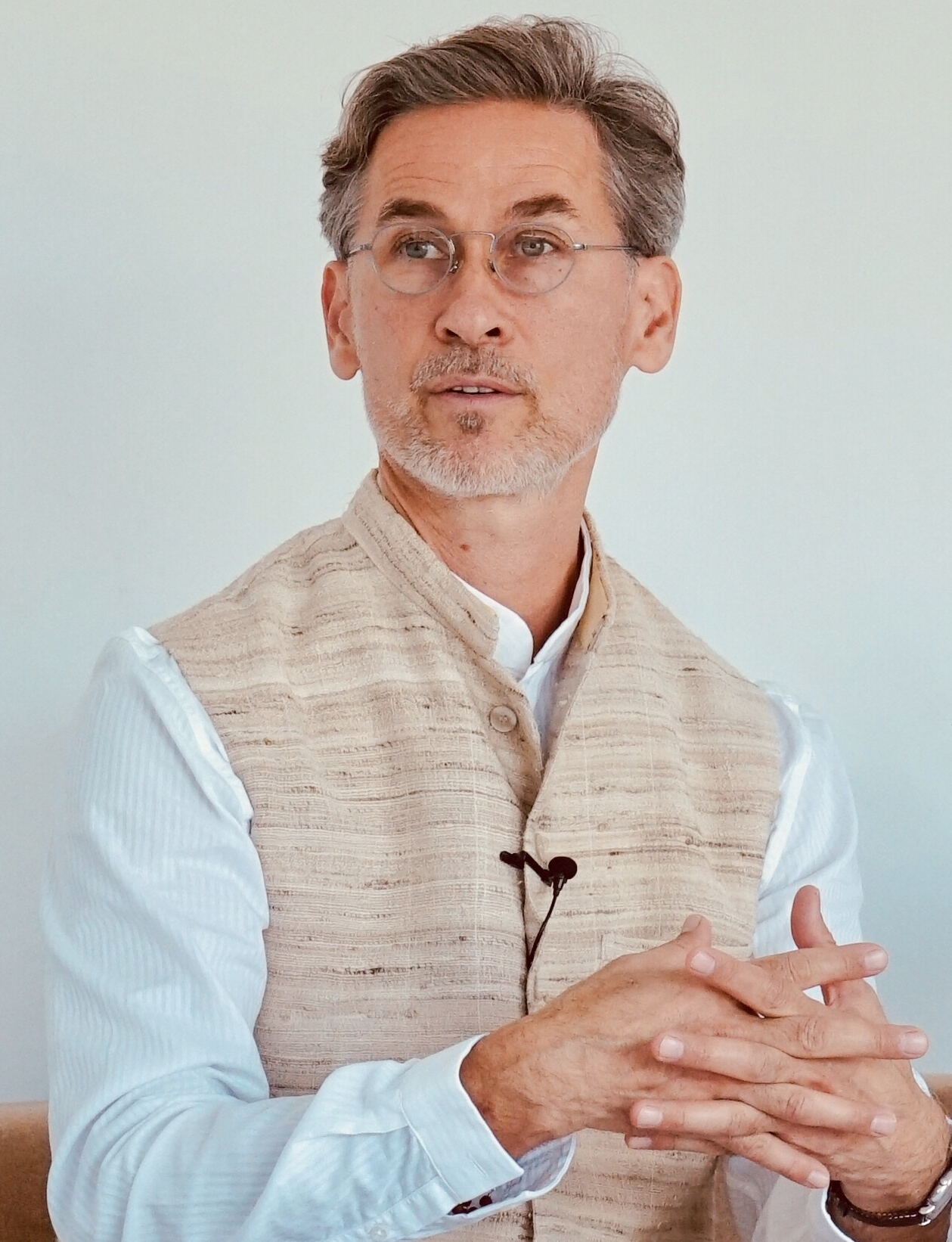 Portrait of Igor Kufayev, Mallorca, November 2019